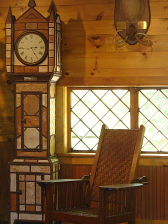 Clock made by Joseph Bryere, on display at the Adirondack Museum, Blue Mountain Lake, New York